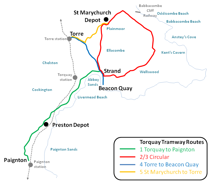 The former tram routes in Torquay and Paignton, Devon, England.